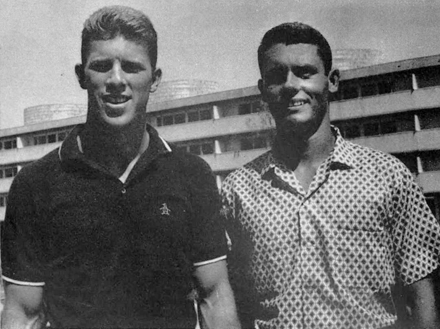 Photograph of Bob Webster and Gary Tobian